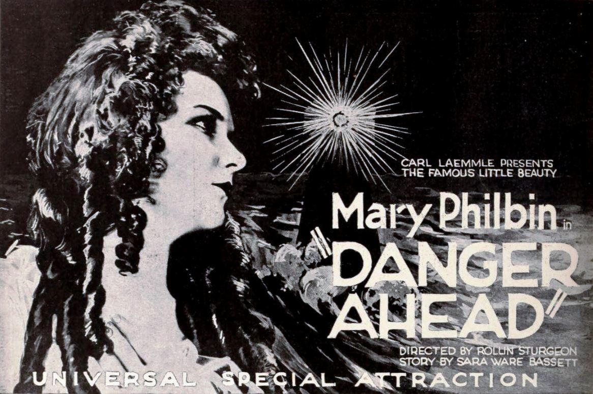 Advertisement for the American drama film Danger Ahead (1921) with Mary Philbin, on page 2 (inside front cover) of the August 6, 1921 Exhibitors Herald.